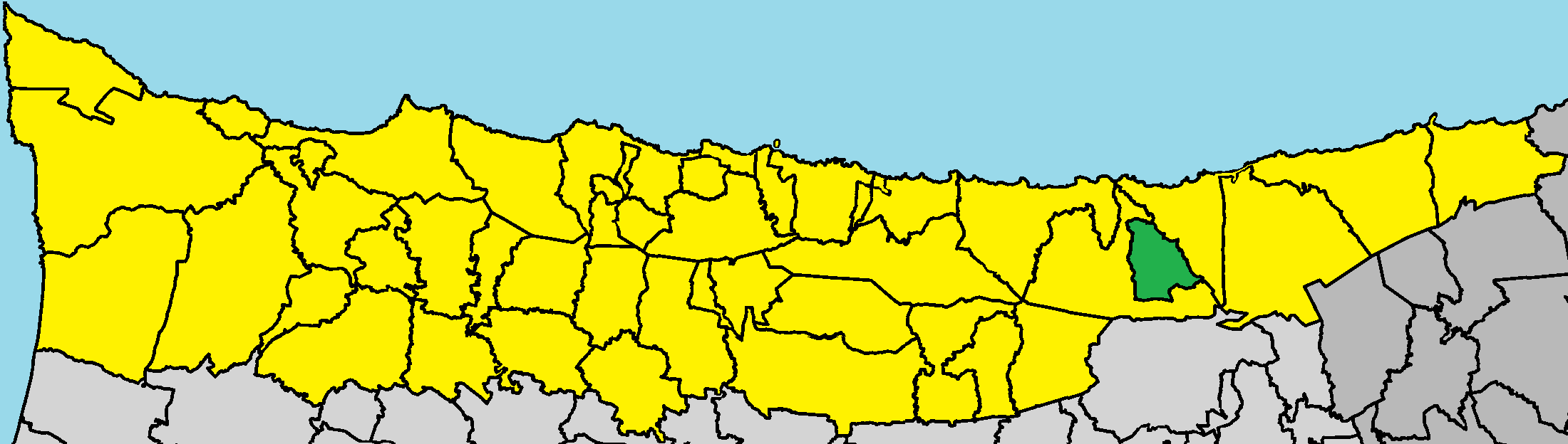 Trapeza Keryneias in Kyrenia District (de jure).